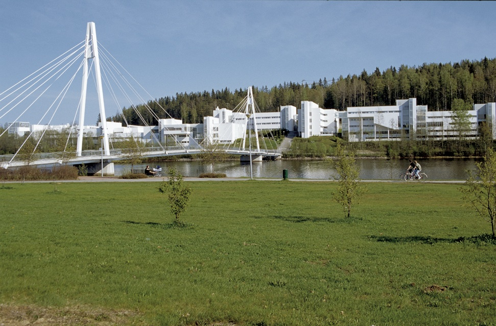 Jyväskylän yliopiston Ylistönrinne - Arto Sipinen